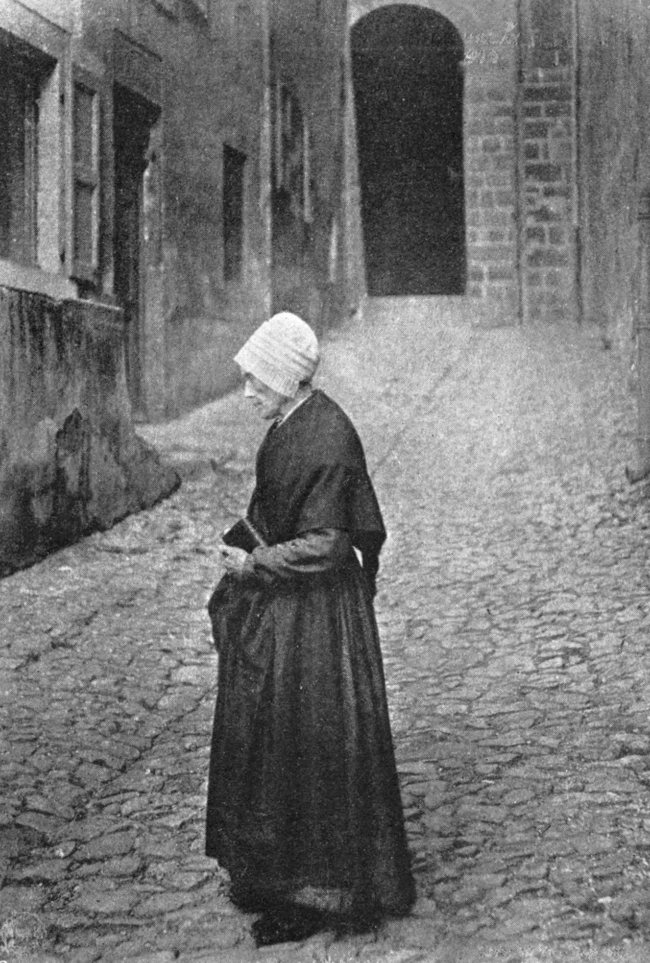 Image from a scanned version of the book "The Book of The Cevennes" by Sabine Baring-Gould, published in 1907 and in the Public Domain, from Image has been cropped, exposure adjusted slightly and sepia tone removed.